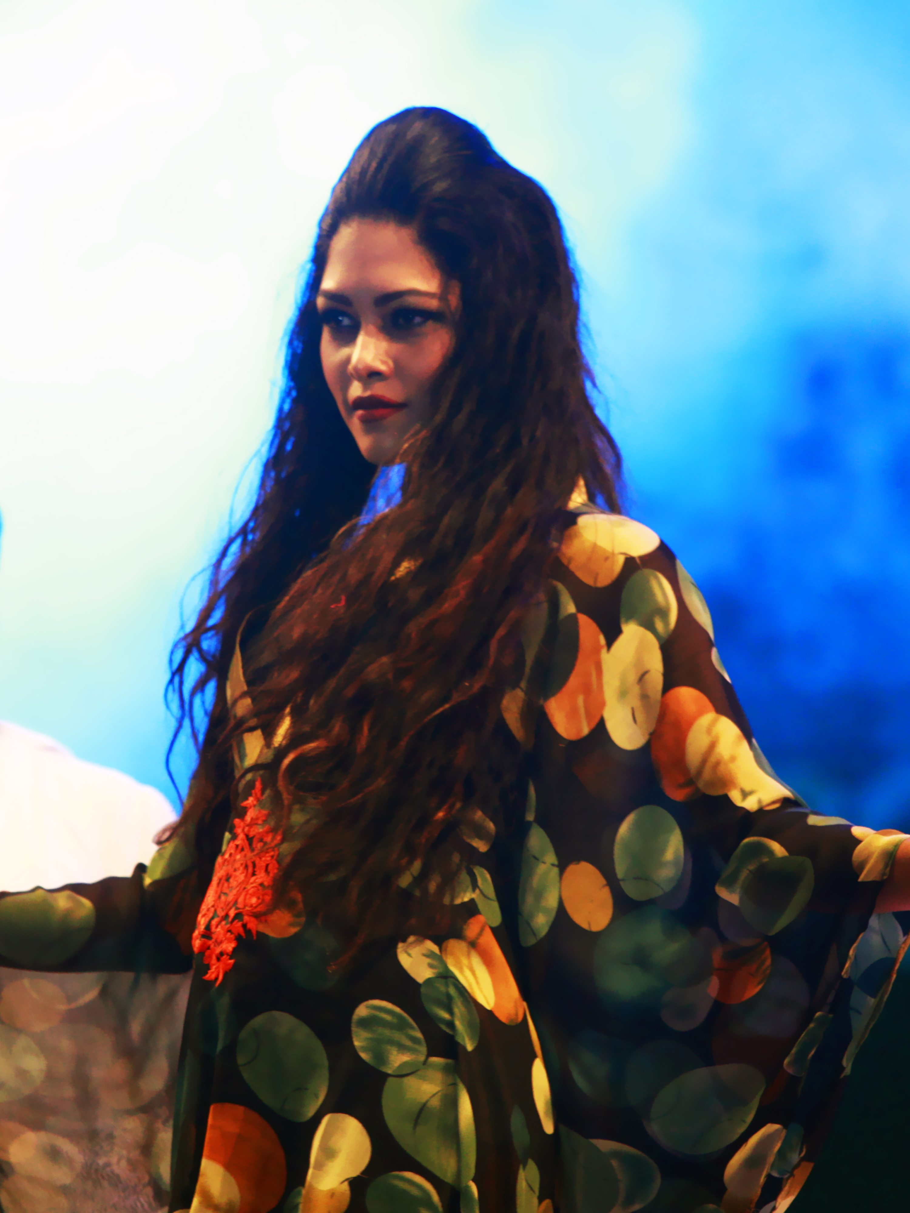 Jannatul Ferdoush Peya in Tri-Nation Mega Festival